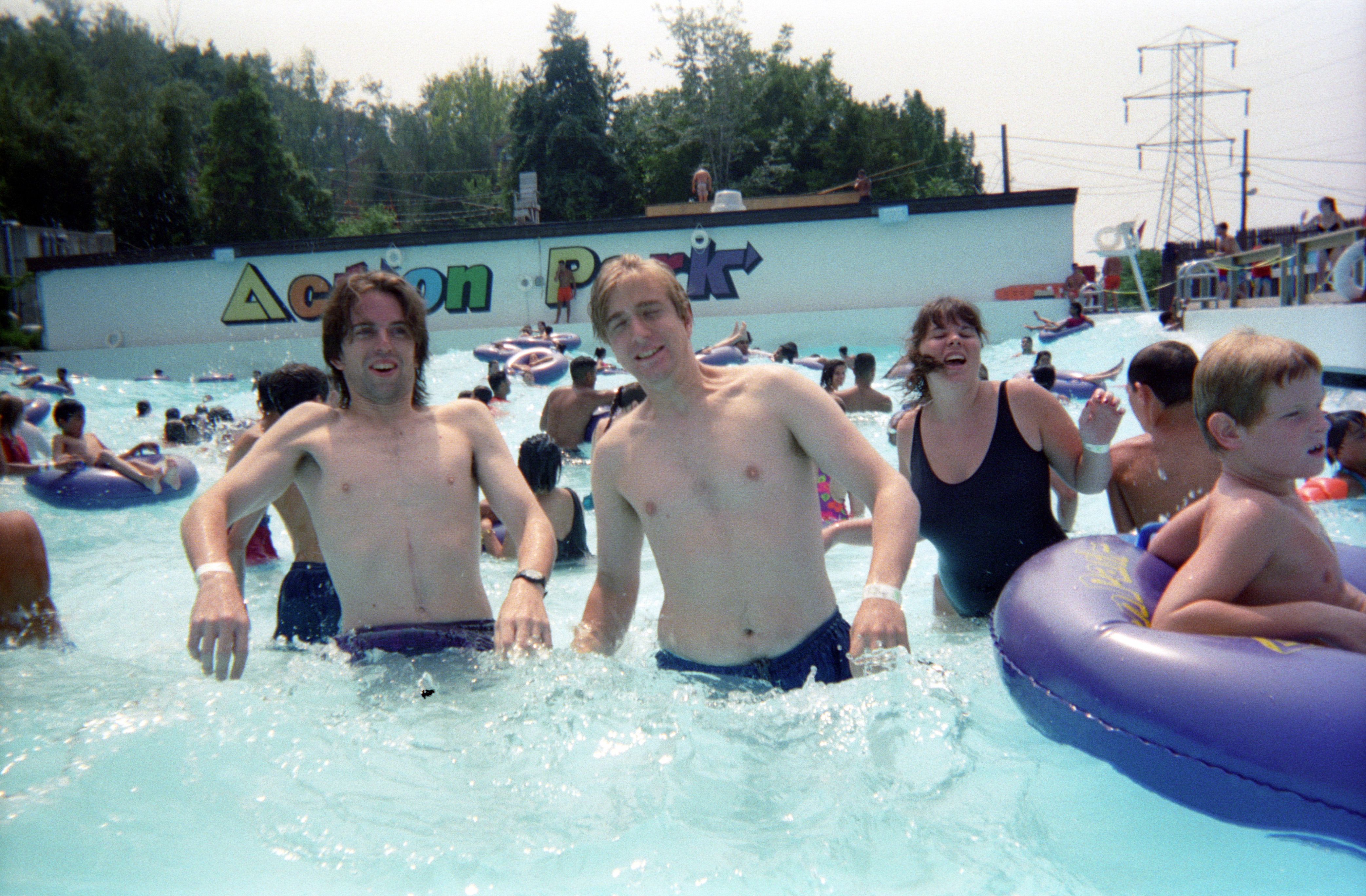 Chlorinated water is less buoyant than salt water, and that makes wave pools that much harder to swim in than the ocean is. Action Park, Vernon, New Jersey, August 1994